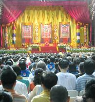 Buddhist ceremony for the survivors and victims of Typhoon Morakot in Kaohsiung